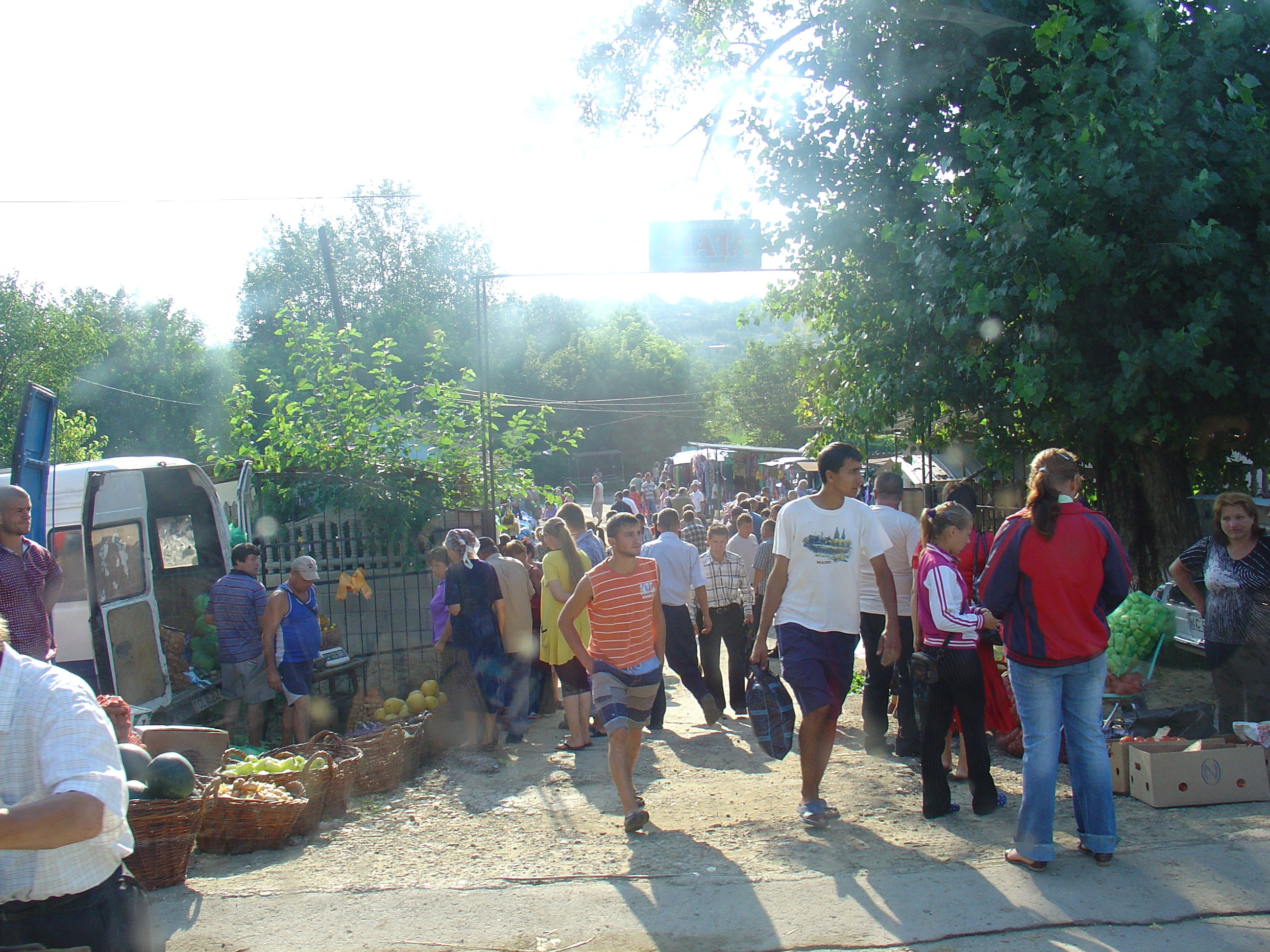 market in Bravicea